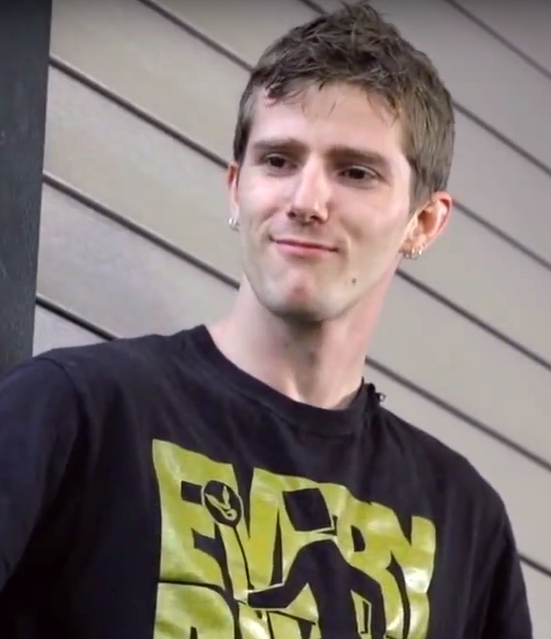 Portrait of Linus Sebastian from "5 Tips for Landing a Real Job" Linus Collab.